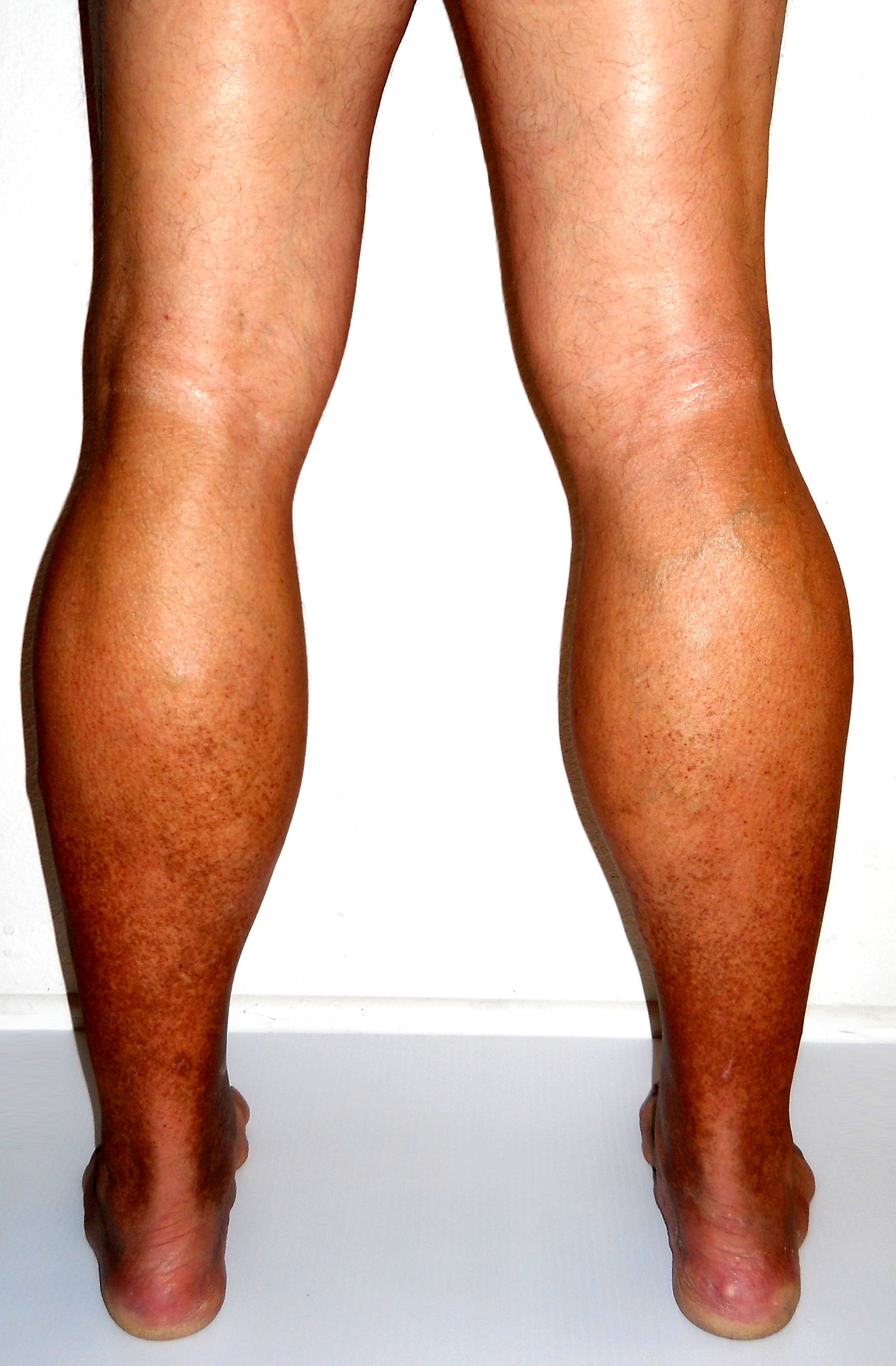 Images of mild chronic venous insufficiency from behind